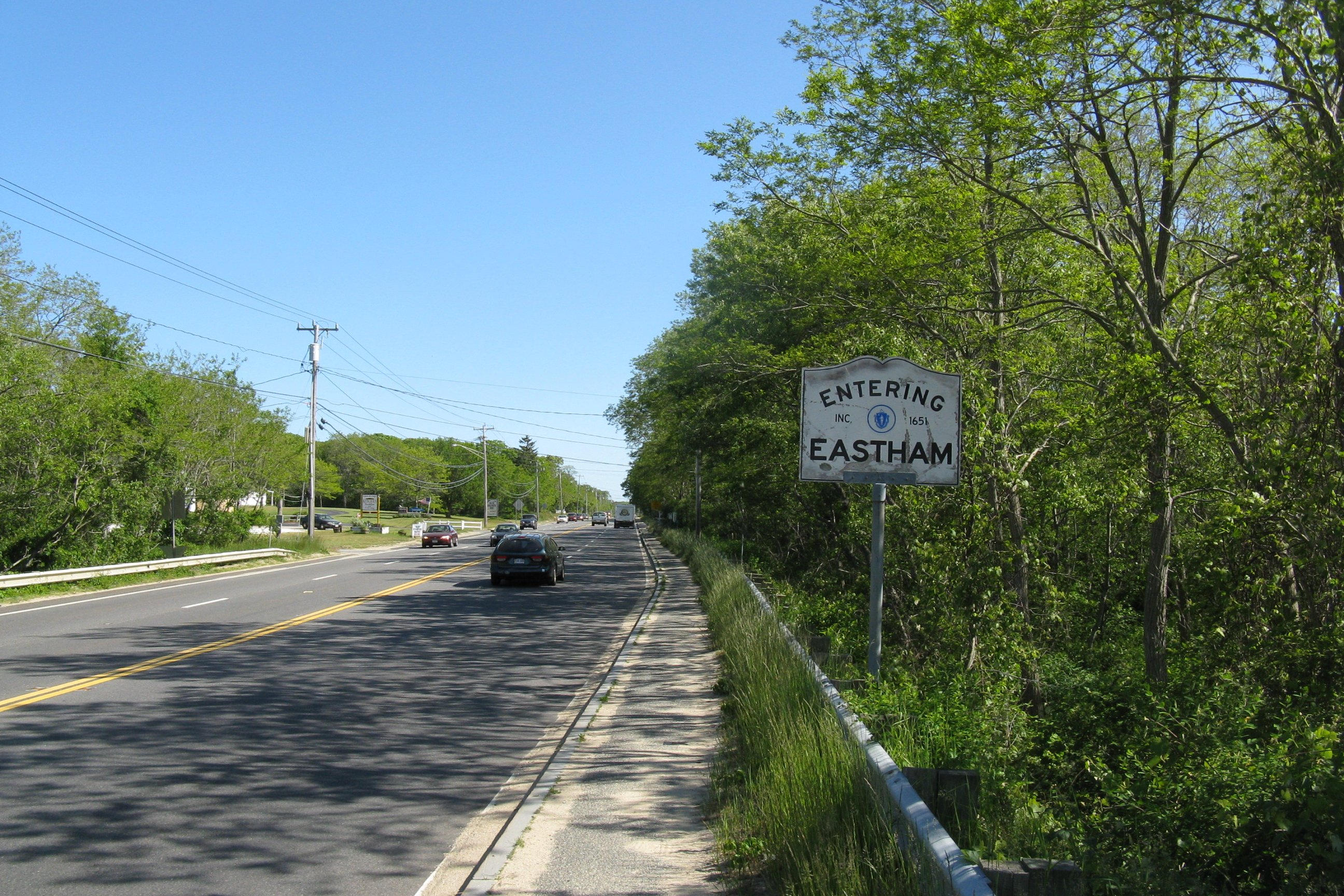 US Route 6 southbound entering Eastham Massachusetts